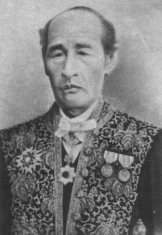 Yawara Shibahara